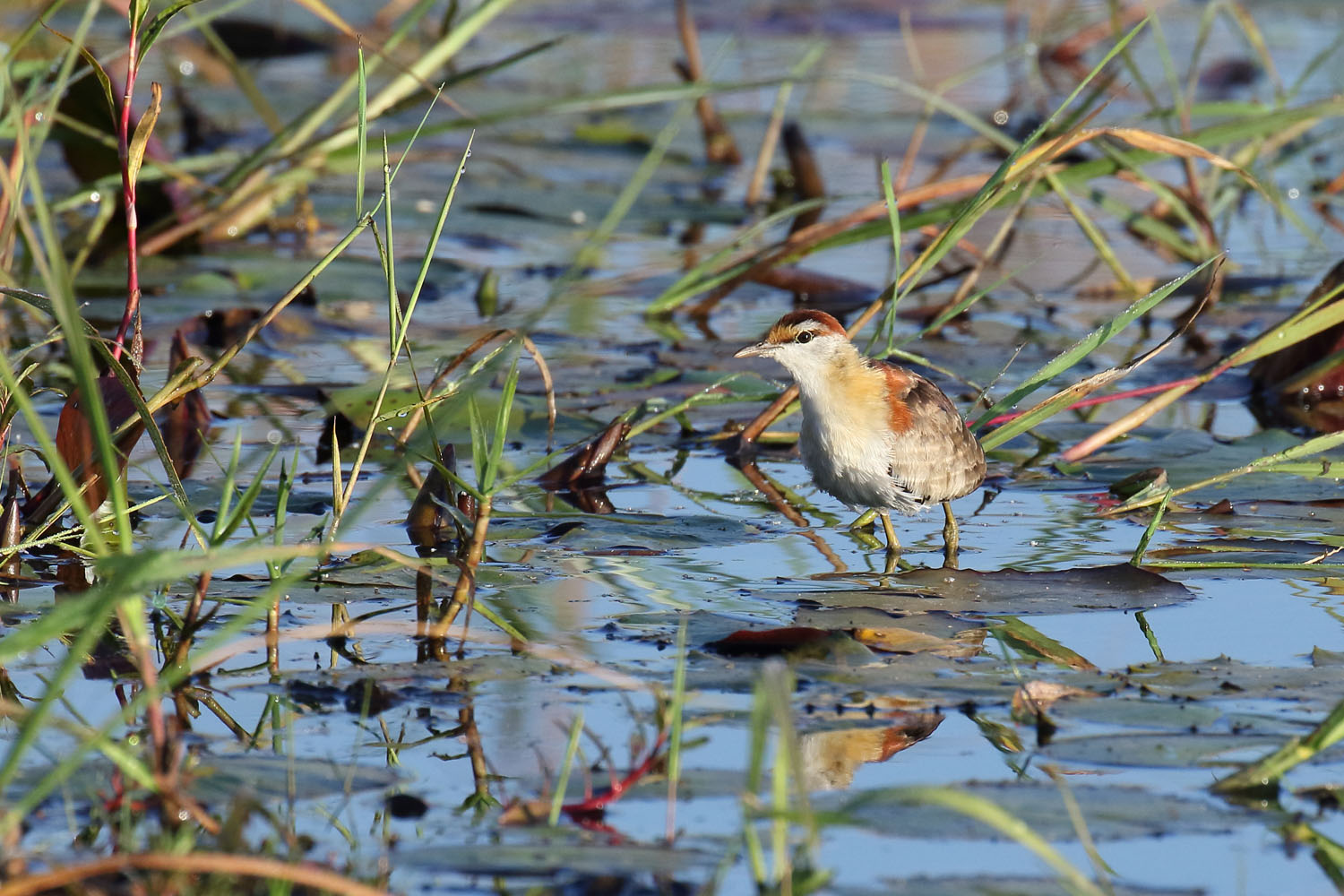 Lesser Jacana, Bangweulu, Zambia